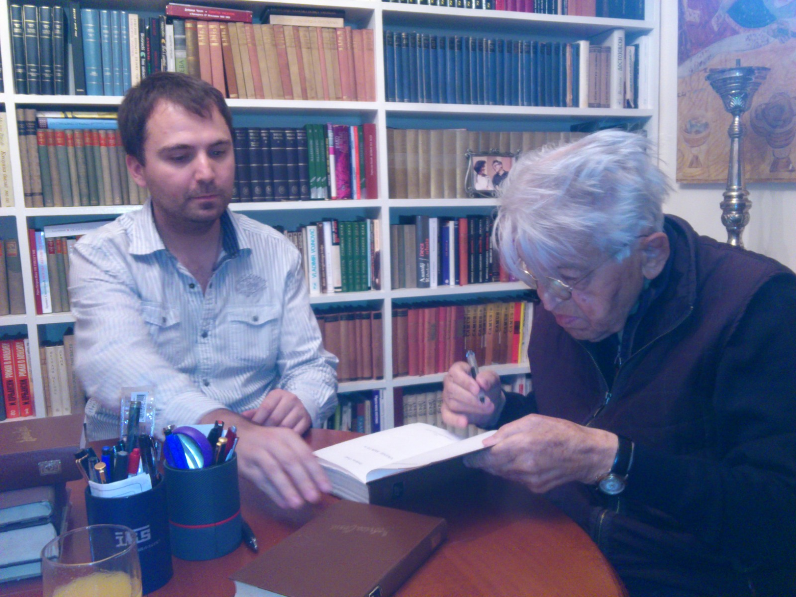 Viktor Lazić, travel writer and lawyer, and Dobrica Ćosić, academic and writer. Српски (ћирилица): Виктор Лазић, књижевник, адвокат и путописац, и Добрица Ћосић, писац, академик.